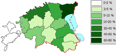 Russian population of Estonia by county, 1 January 2010. Data source : Statistics department of Estonia